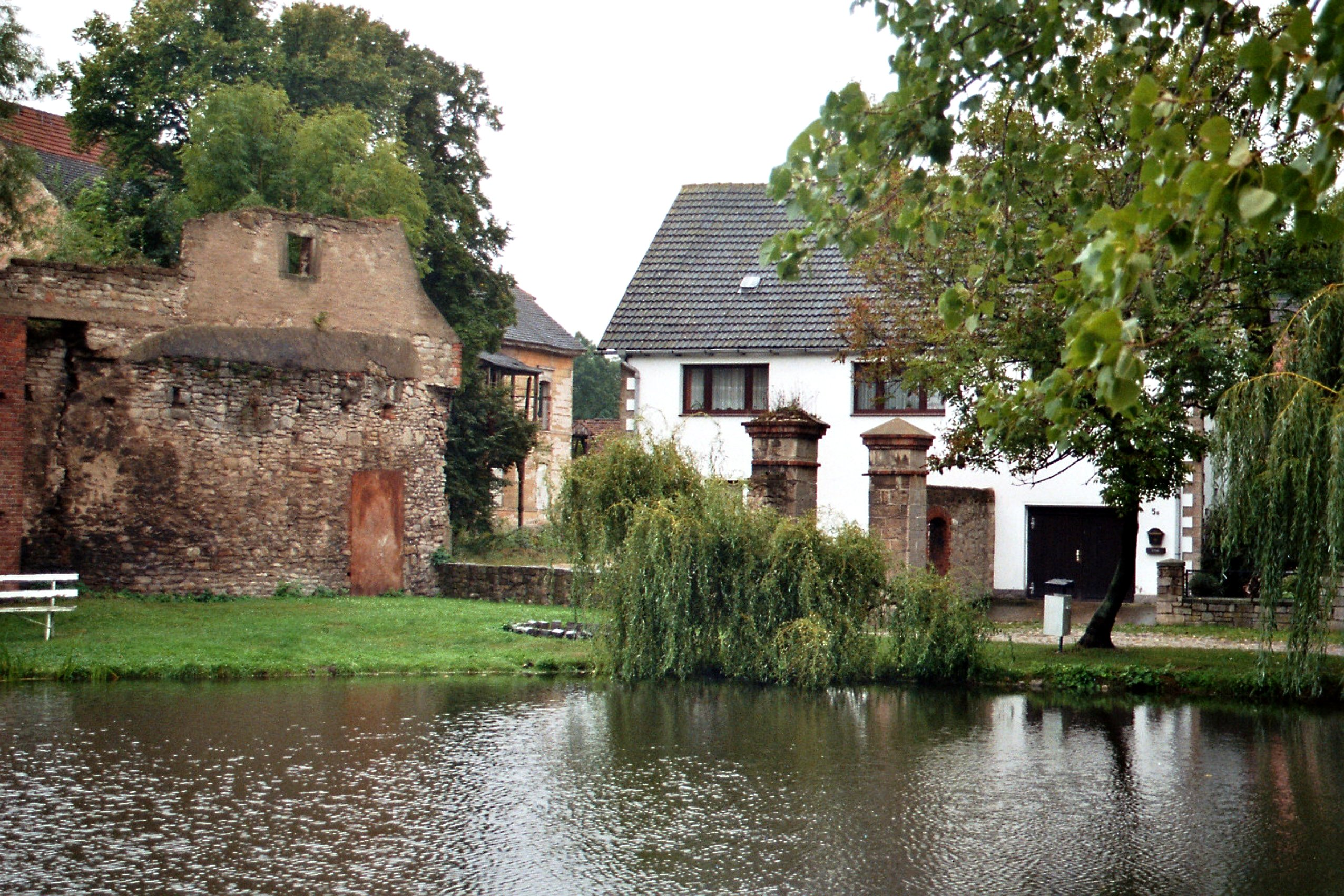 Warmsdorf (Güsten), a part of the moated castle This is a photograph of an architectural monument. 90166